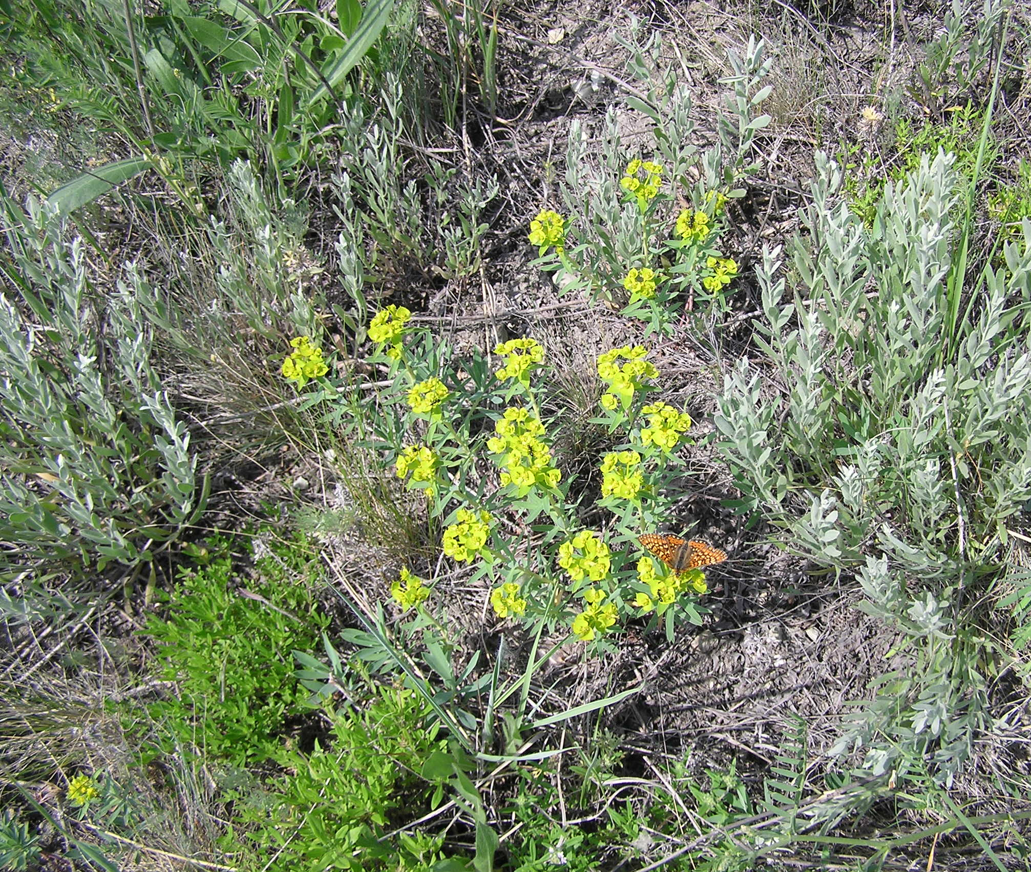 Euphorbia volgensis (Krysht.). Habitat: southern chalk slope. Vicinity of Saratov city, Russia.